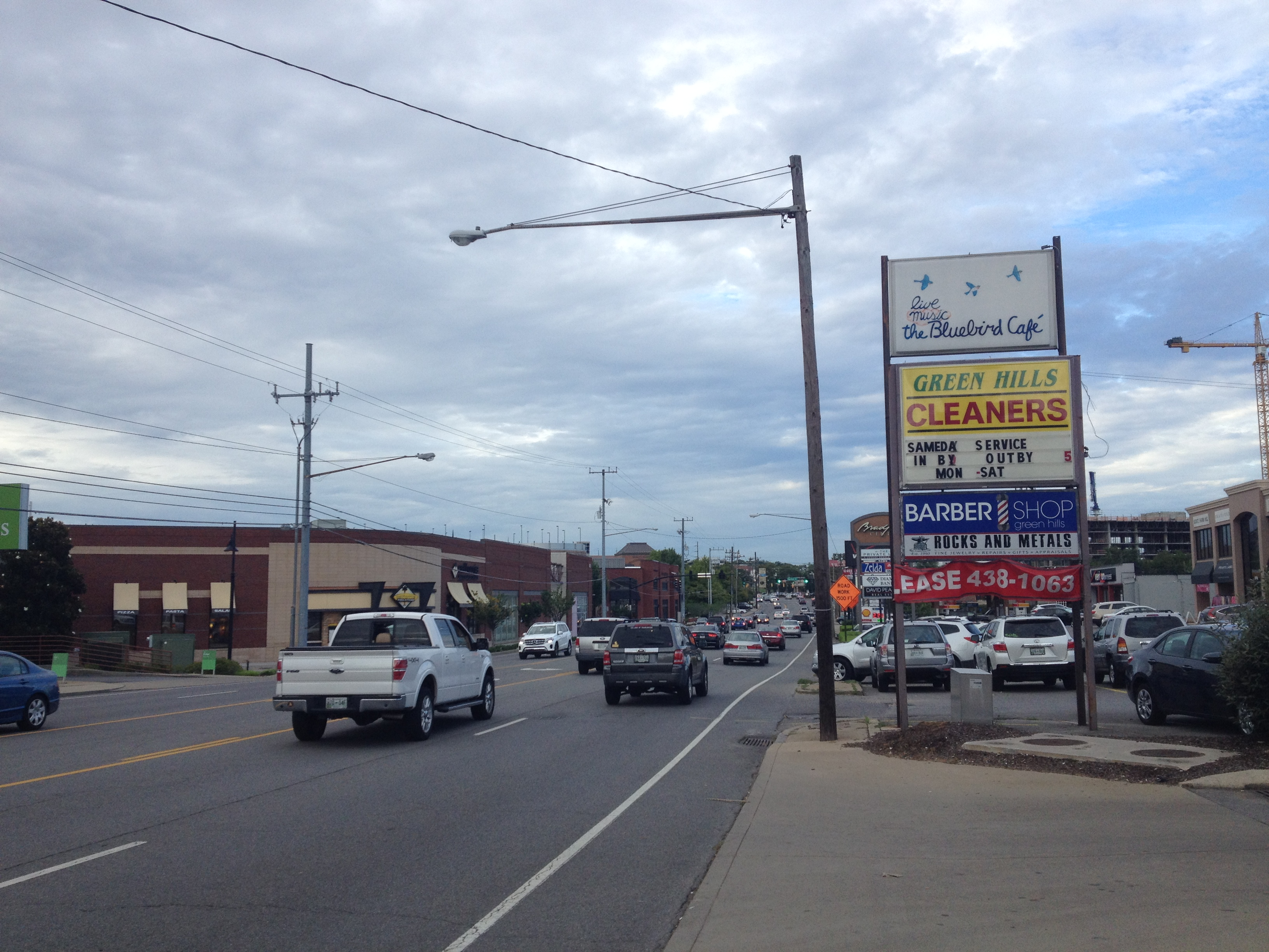 Northbound U.S. Route 431 (Hillsboro Pike) past the intersection with Hillsboro Drive in Nashville, Tennessee